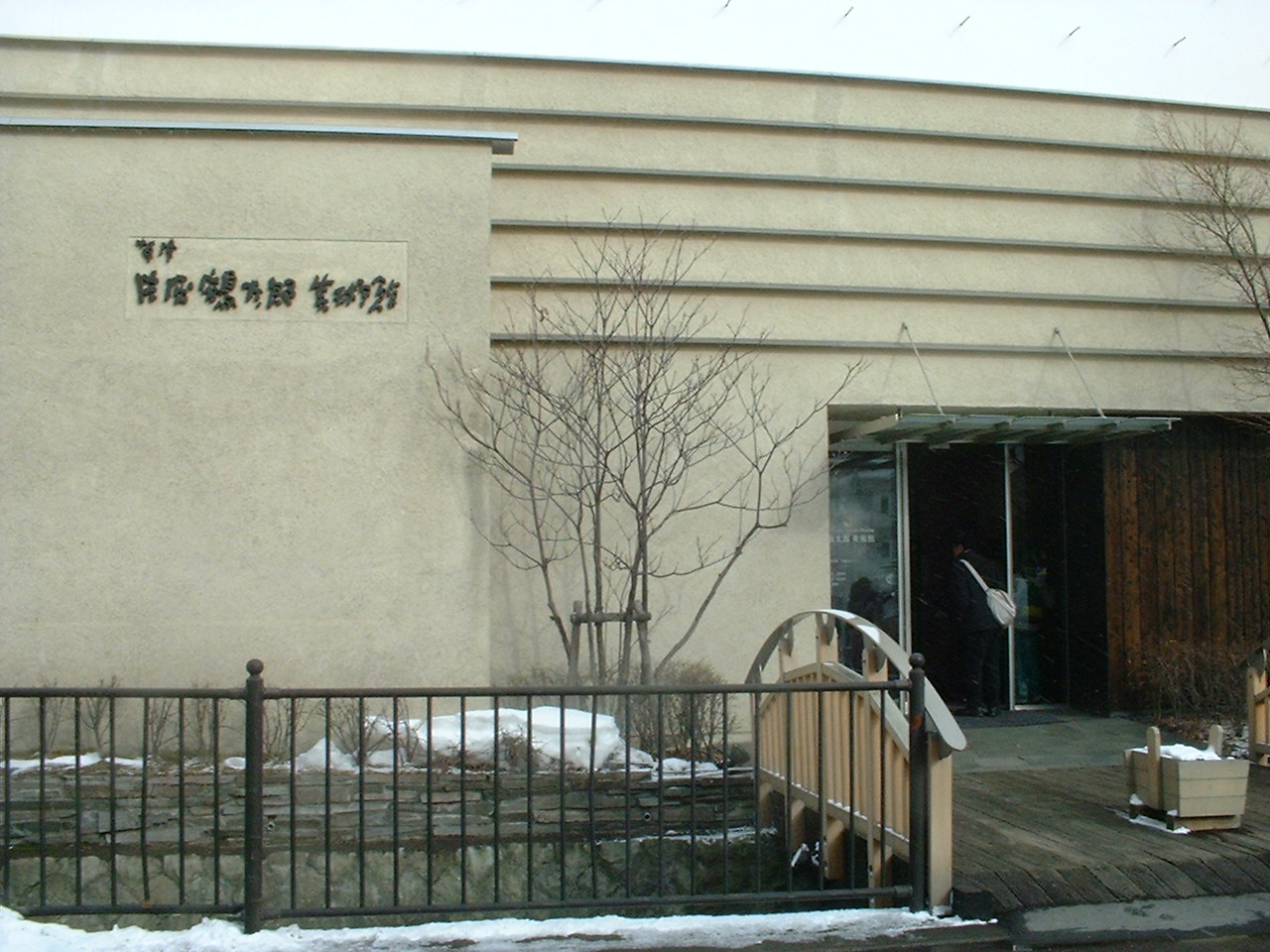 Tsurutaro Kataoka art museum in kusatsu.